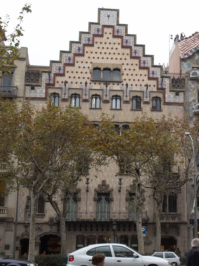 Photo of Casa Amatller, Passeig de Gracia 41, Barcelona.